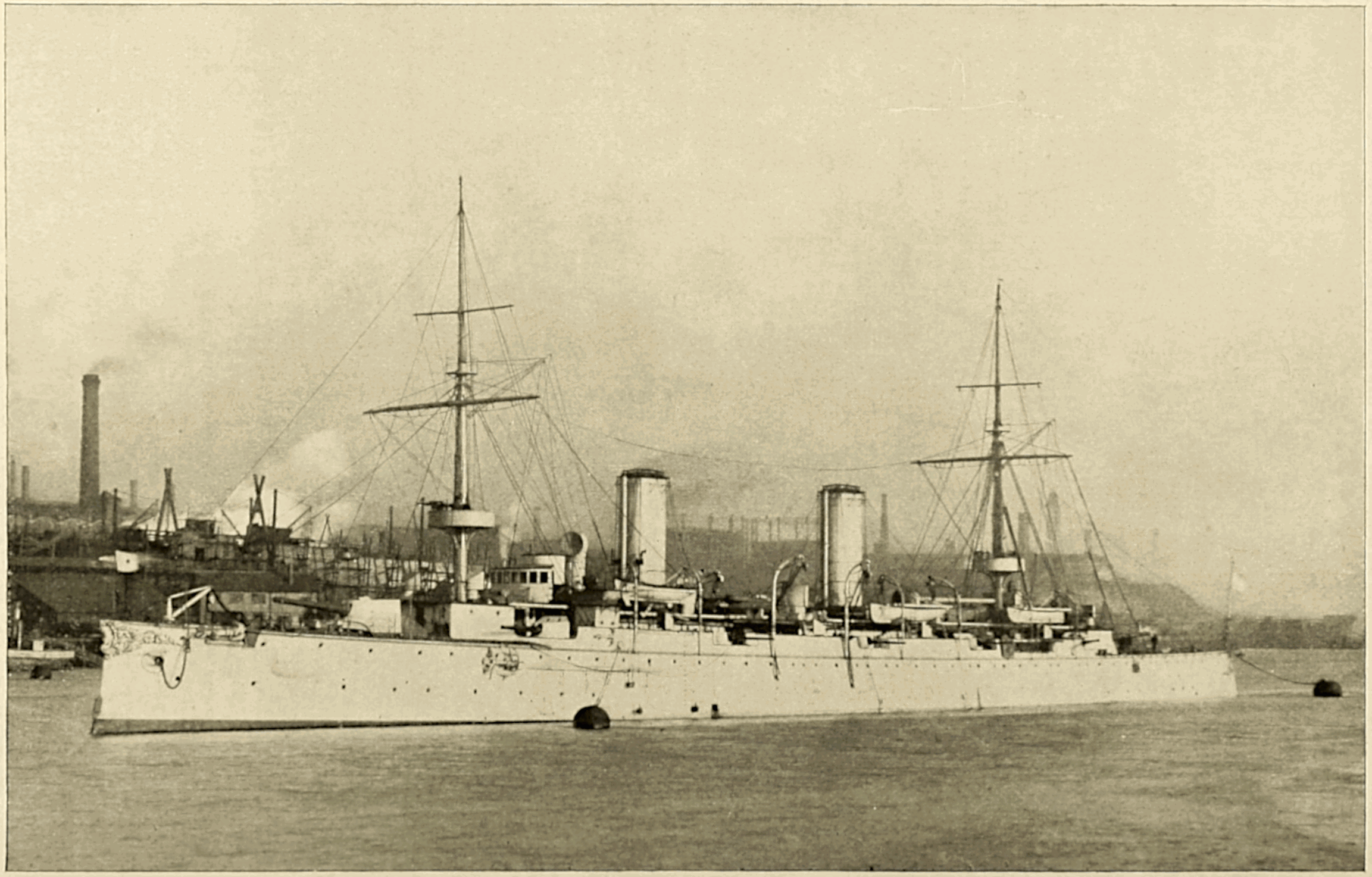 Cassier's Magazine of April 1897 had an article on page 437-447, written by Robert MacIntyre and titled Shipbuilding in Great Britain. It was accompanied by a number of illustrations, including this photo of the Argentine Cruiser Buenos Aires, at the time of its completion by W.G. Armstrong Limited, Newcastle, on page 444.